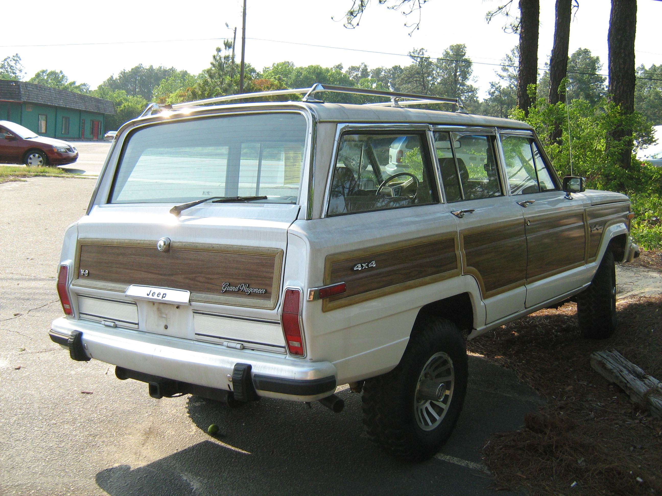 Jeep Grand Cherokee finished in white - rear view. Photographed in North Carolina.